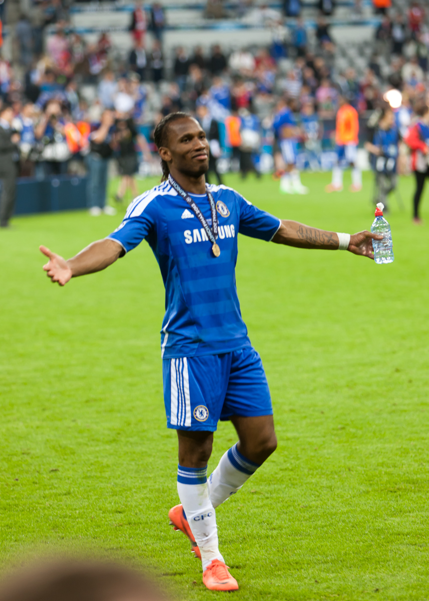 UEFA Champions League Final. FC Bayern München 1-1 Chelsea FC (aet, Chelsea win 4-3 on penalties)